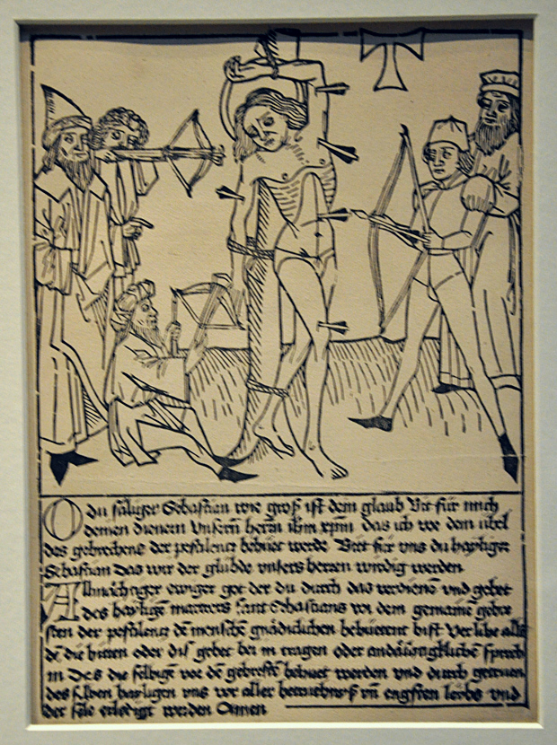 British Museum reference 1847,0522.2 Detailed description print from printing-block 1847,0522.1 (Martyrdom of Saint Sebastian, South Germany, c. 1470–1475) Location Room 40